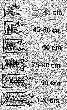 How to compute the length of the shoe laces when you buy some